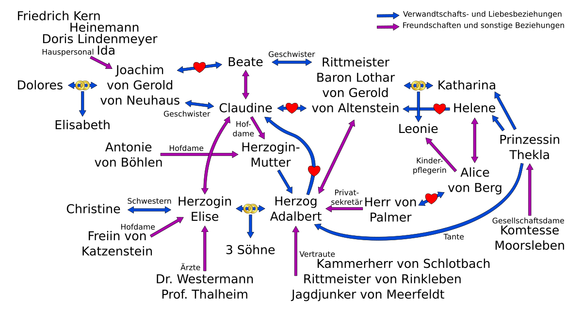 Character map of E. Marlitt's Novel "Das Eulenhaus"